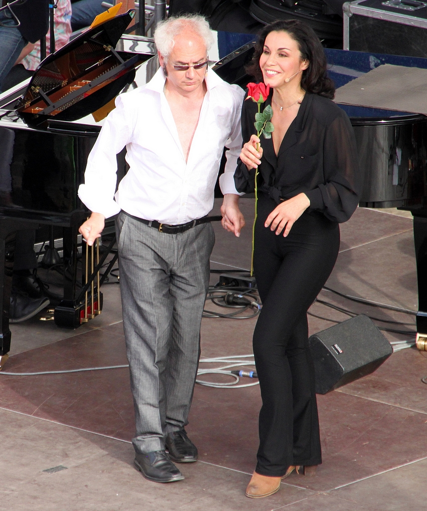 This image shows the german actress and singer Katrin Weber and the actor and cabaret performer Tom Pauls during the benefit concert "Pirna taucht auf" in Pirna to raise money for the families affected by the flood of the Elbe river in june 2013.